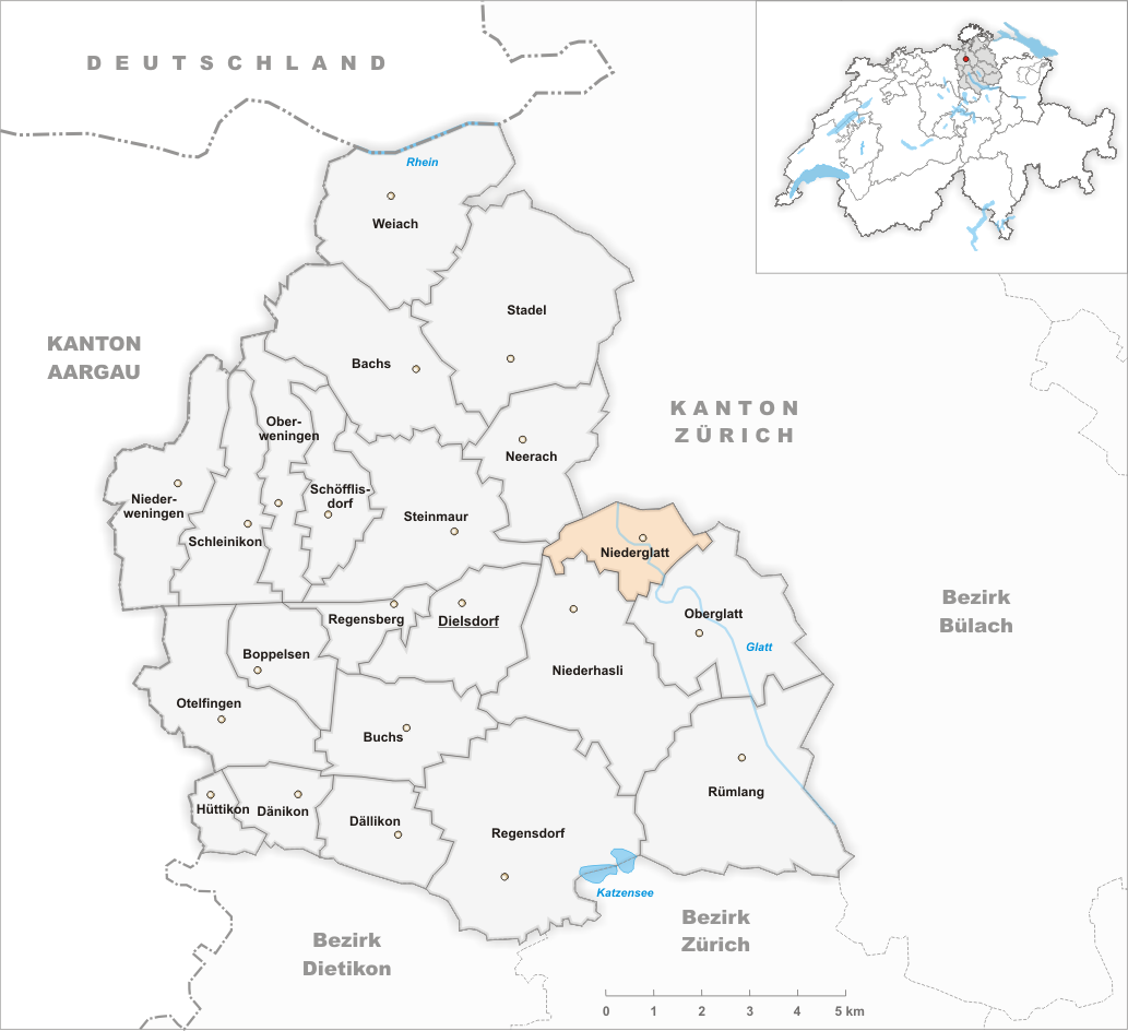 Municipality Niederglatt